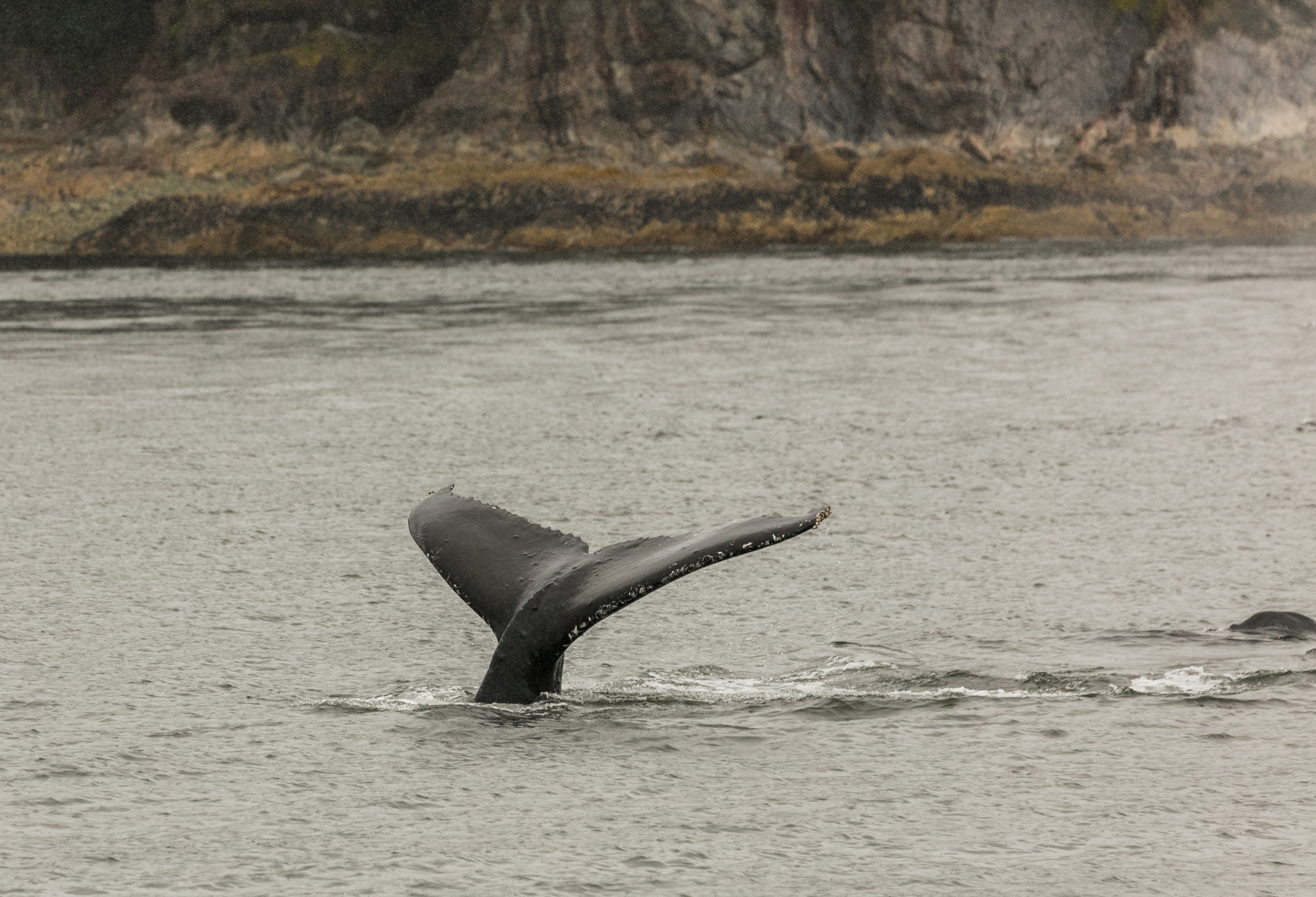 Humpback whales watching (Megaptera novaeangliae), Juneau, Alaska, United States